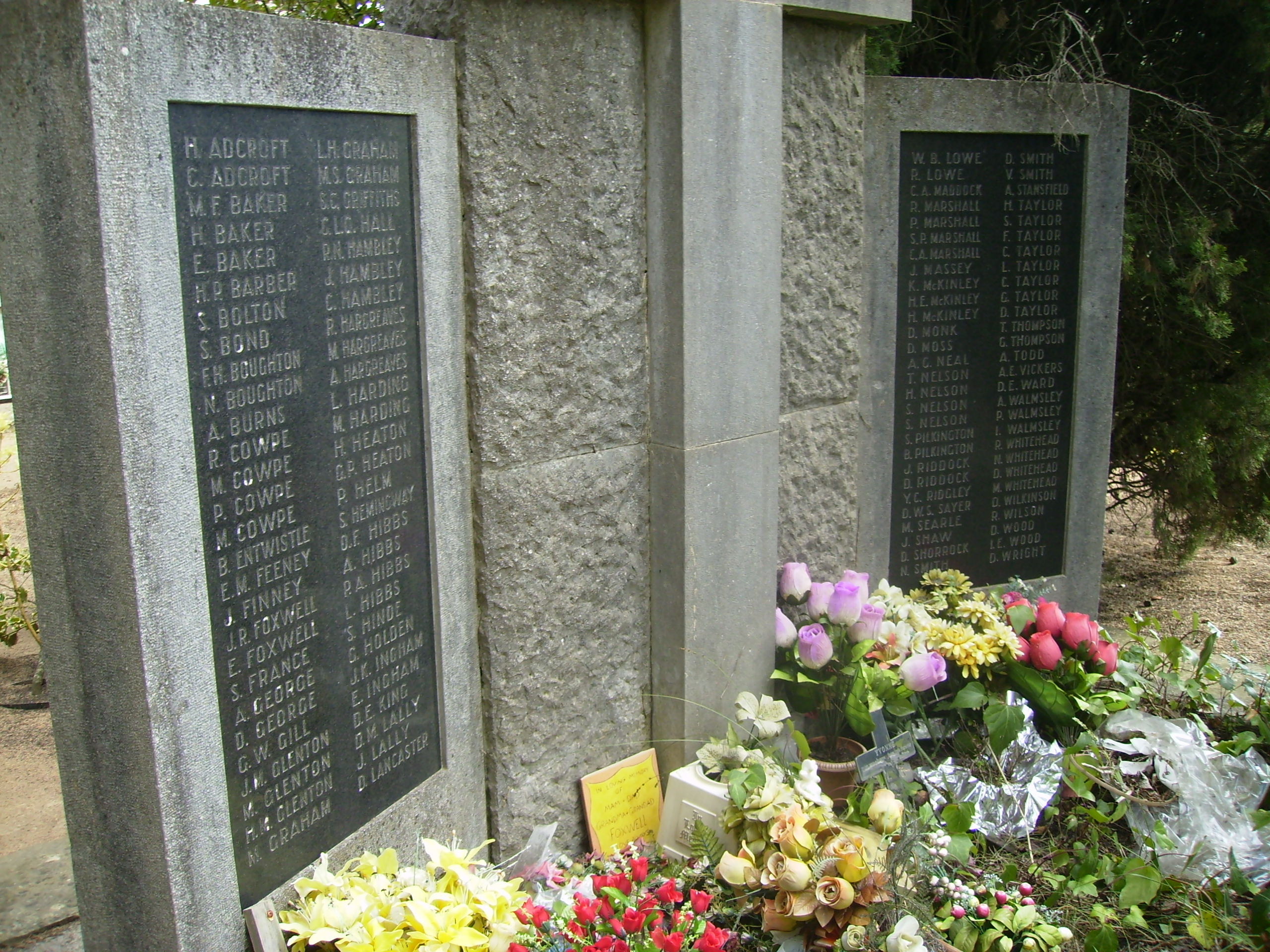 Monument for victims of Montseny airplane accident of 3th july 1970. Photo taken near to mass grave in Arbúcies (Catalonia)